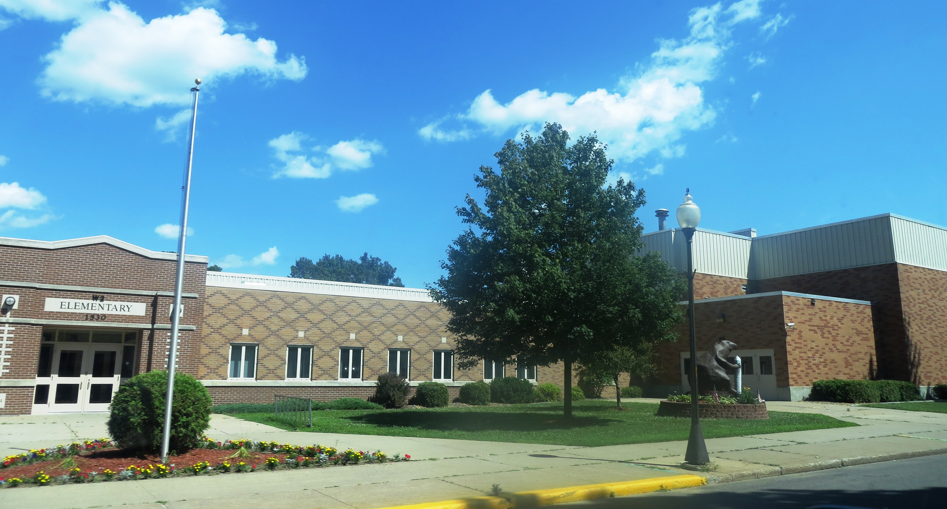 Photo from the Cumberland area of Barron county, northwestern Wisconsin.